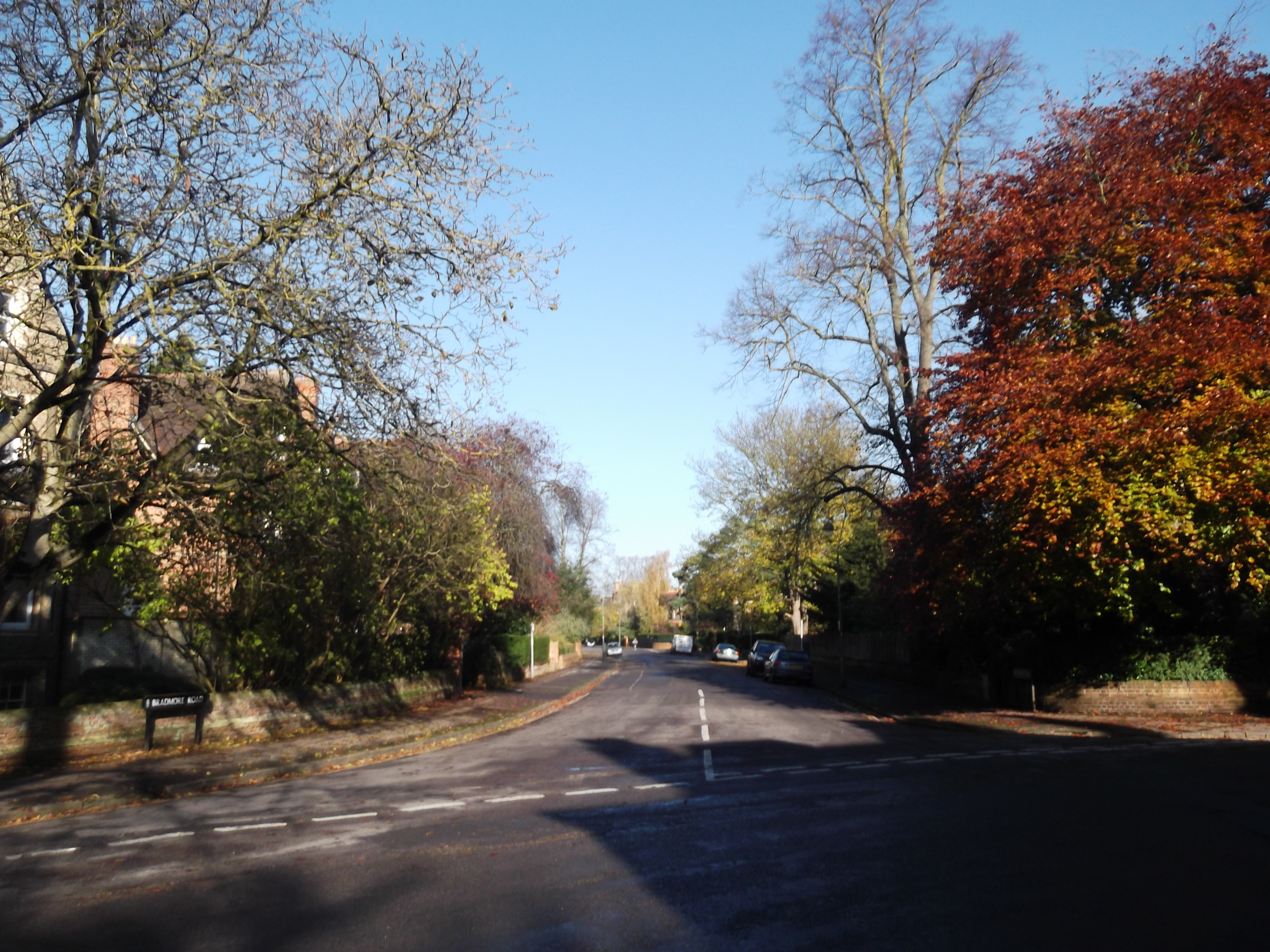 Street in north Oxford, England.